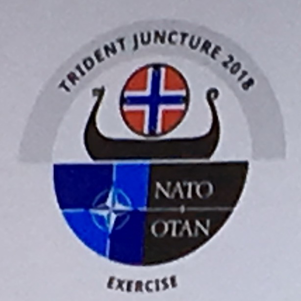 Trident Juncture 2018 Logo